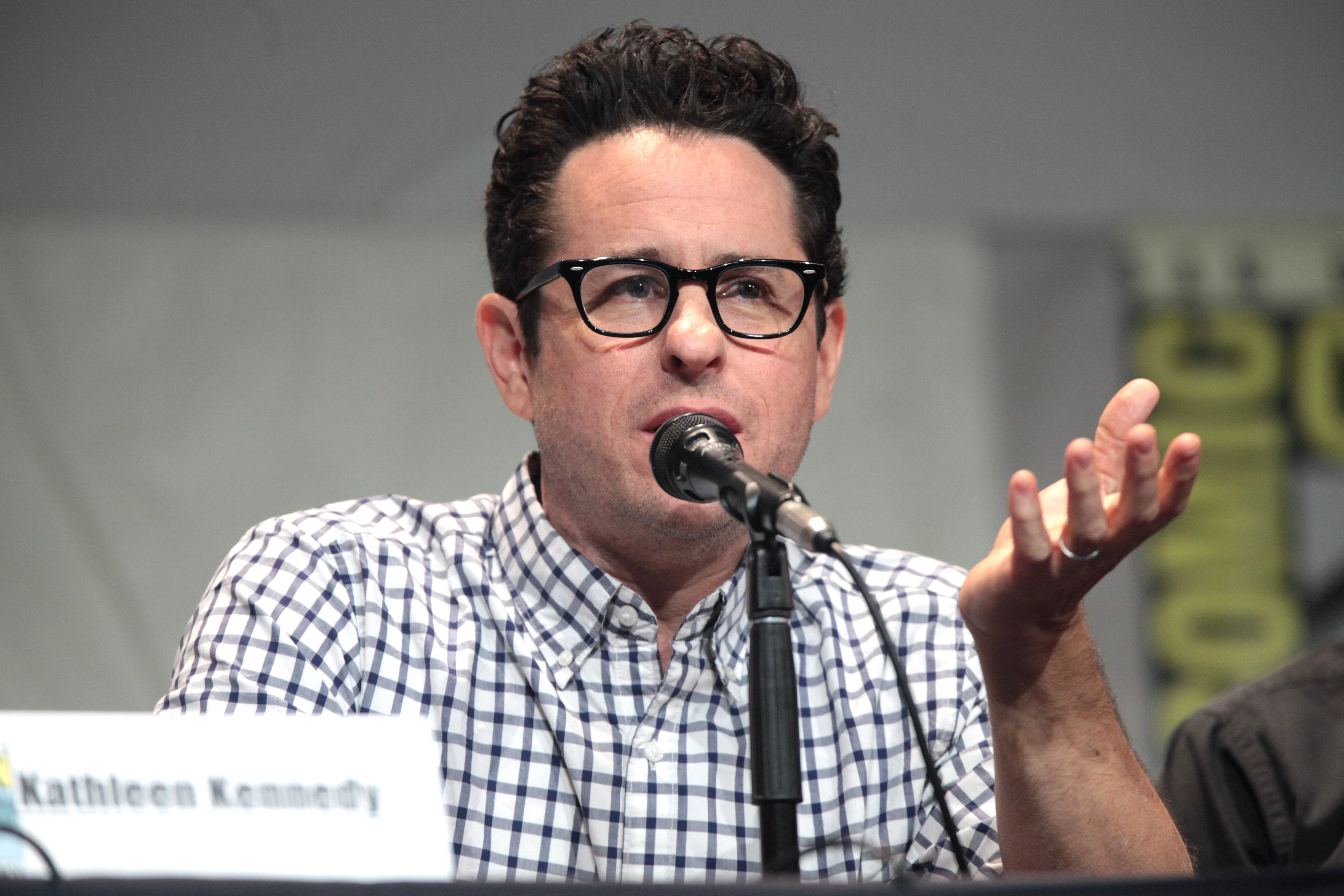 J. J. Abrams speaking at the 2015 San Diego Comic Con International, for "Star Wars: The Force Awakens", at the San Diego Convention Center in San Diego, California.